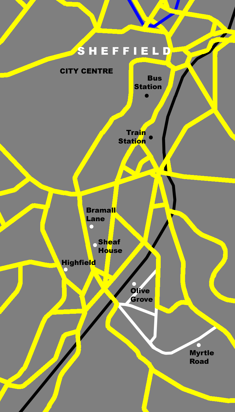 Map of Bramall Lane area of Sheffield showing the location of early home grounds of 'The Wednesday' (Sheffield Wednesday F.C.) on a modern day map.Featured on the map are (north to south) Sheffield bus station, Sheffield train station; and the locations of the grounds - Bramall Lane, Sheaf House, Highfield, Olive Grove and Myrtle Road.